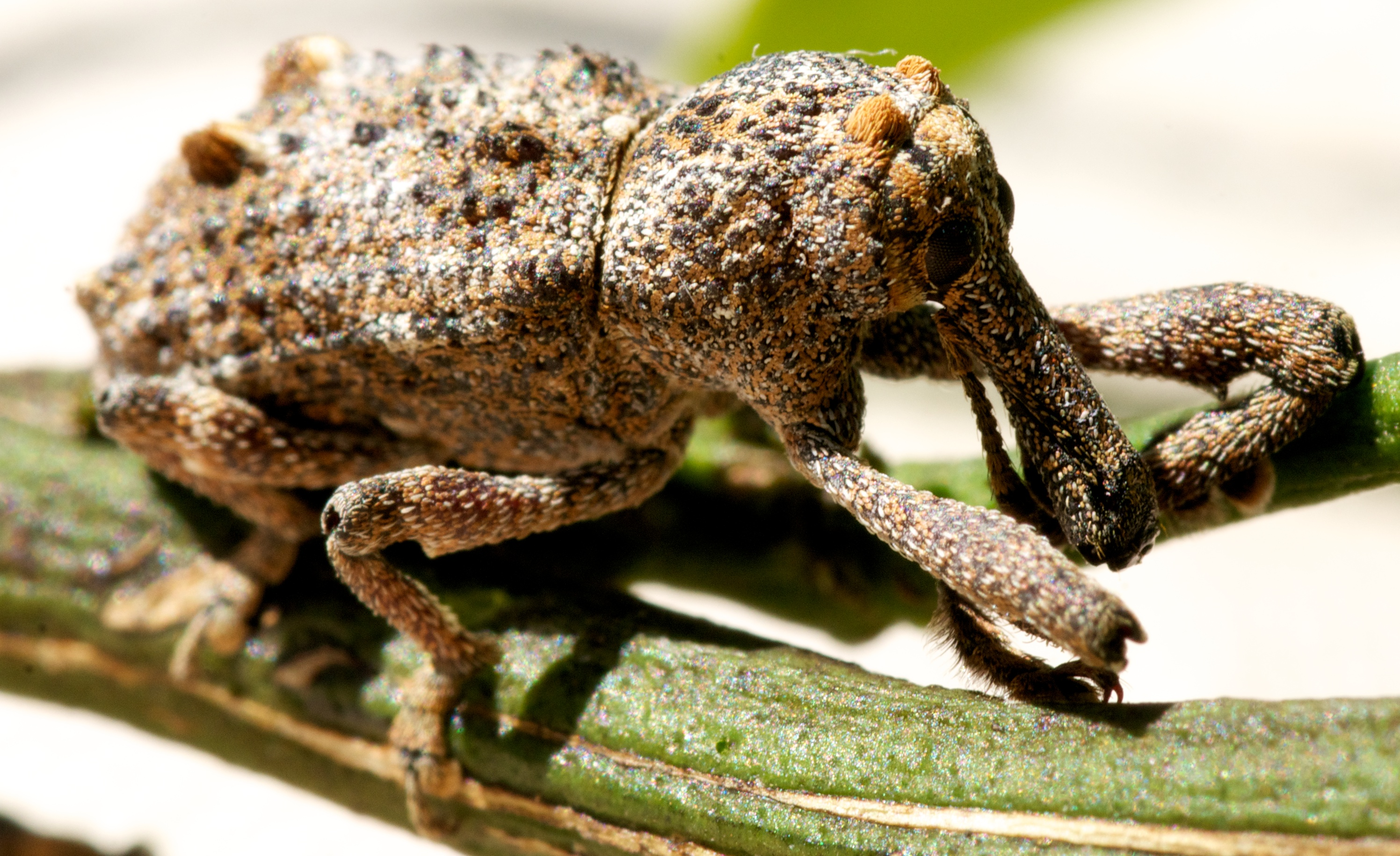 Orthorhinus cylindrirostris, Bayswater Western Australia (Elephant Weevil)